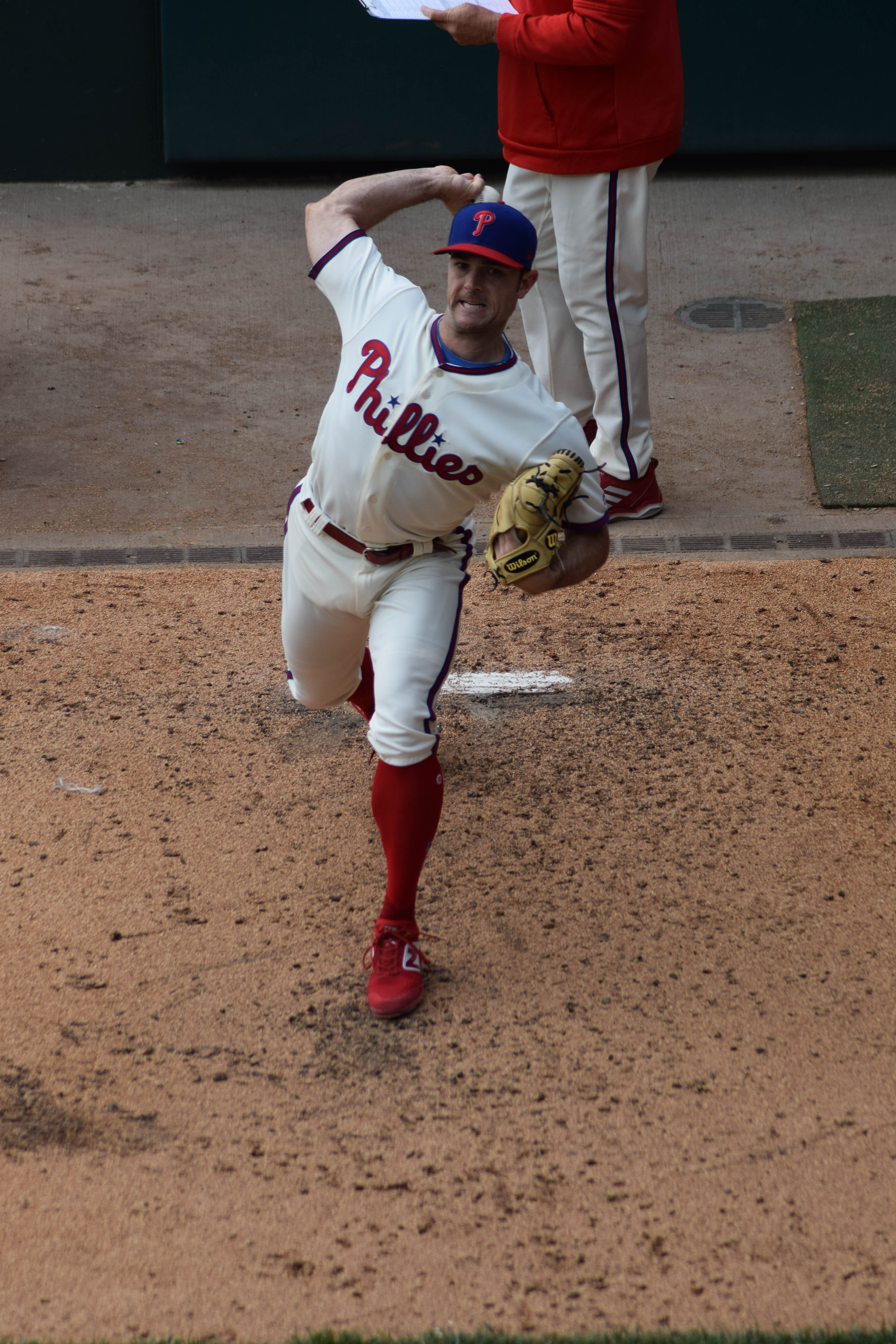 David Robertson pitching for the Phillies in 2019